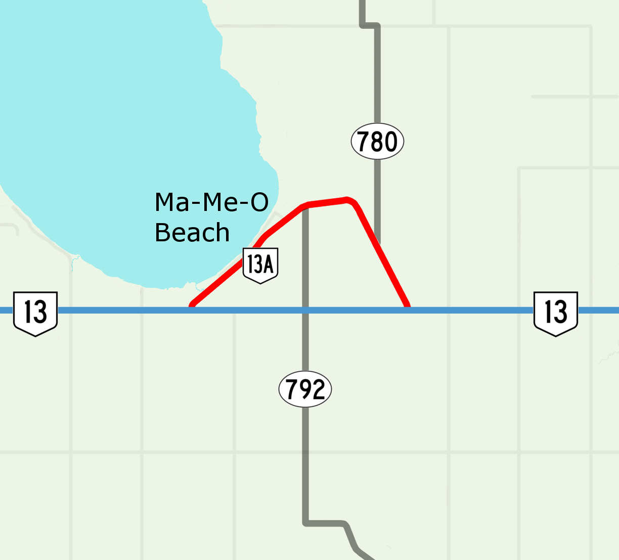 Alberta Highway 13A in Ma-Me-O Beach - created with OpenStreetMap